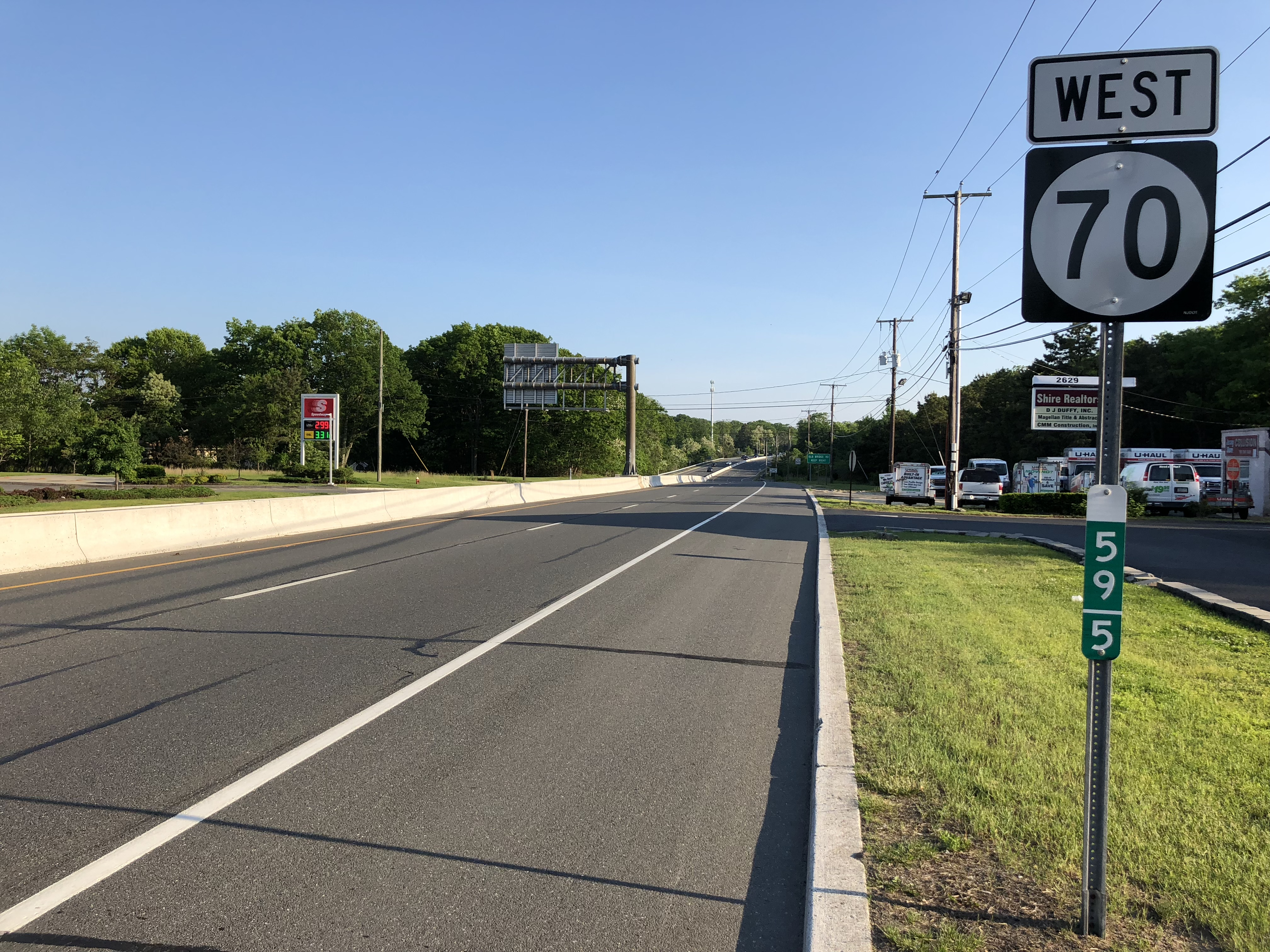 View west along New Jersey State Route 70 between New Jersey State Routes 34 and 35 and Morning Star Road in Wall Township, Monmouth County, New Jersey